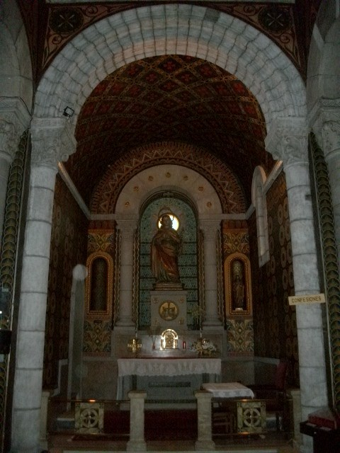 A image in the St Eulalia chapel of the San Pedro Church in La Felguera (Asturias, Spain)